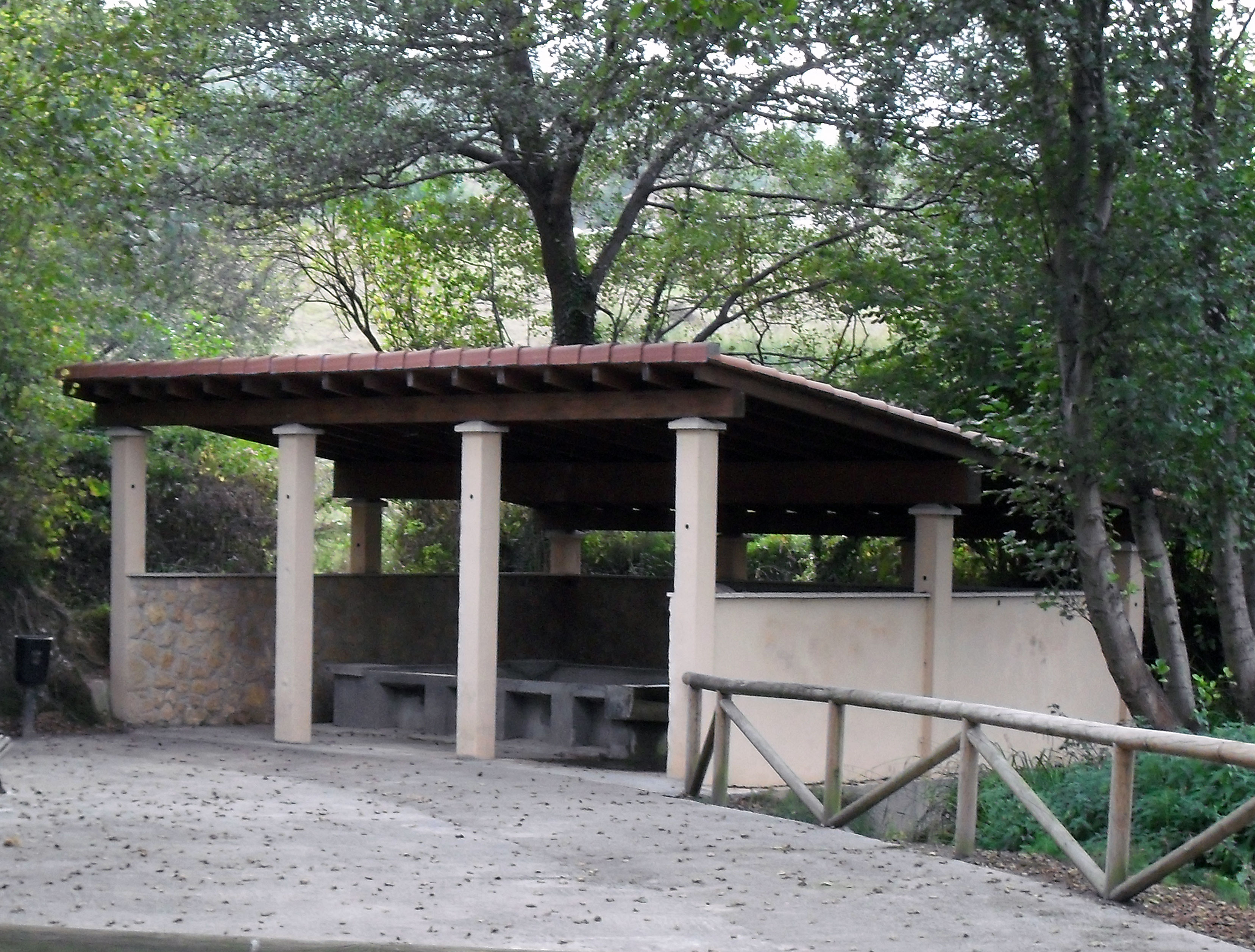 Washing house in La Rotella, Villabona, Llanera, Asturias, Spain